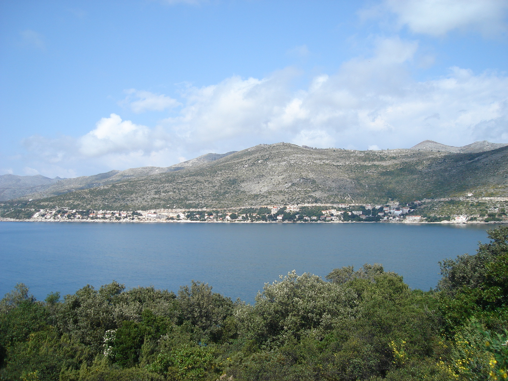 Village Lozica on the Adriatic coast near Dubrovnik